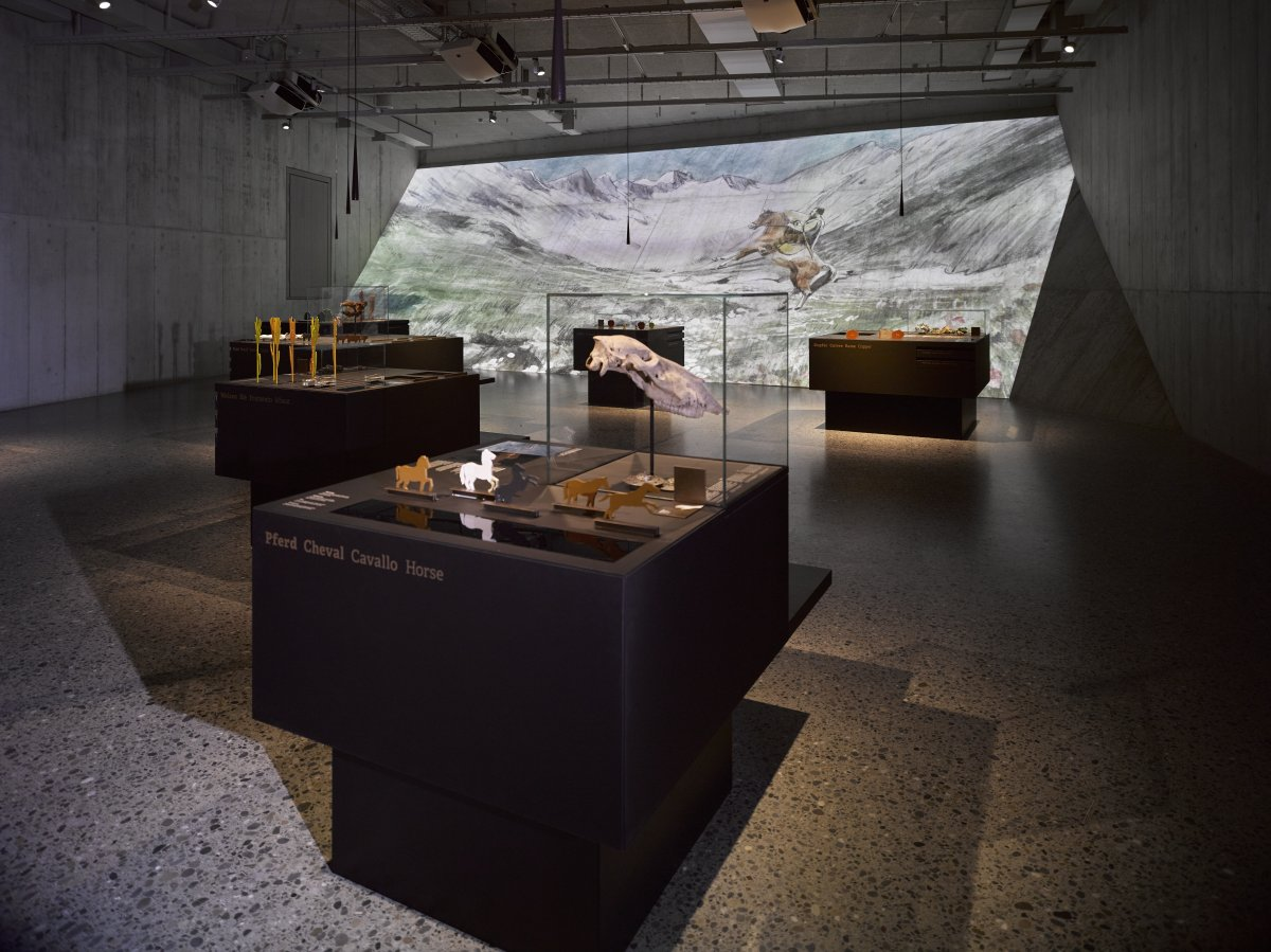 Landesmuseum Zrich. Dauerausstellung Archologie Schweiz. Ab 01.08.2016.